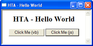 Screen shot of a window produced by an HTA, captured using a screen capture tool